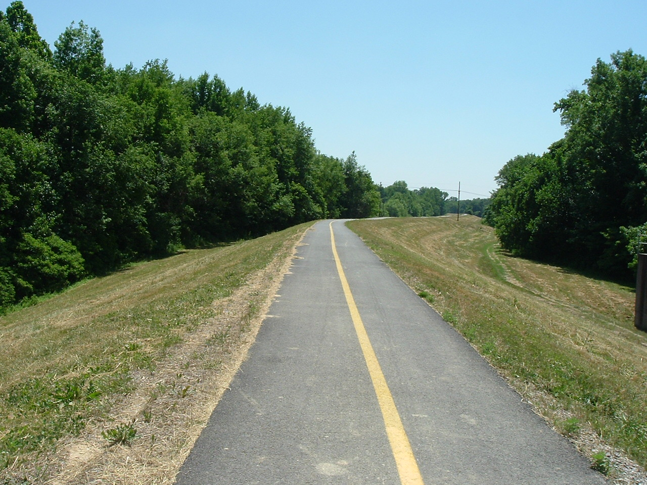 Unknown location - uploader / file did not specific. Apparently a Mill Creek Trail, but there seem to be more than one.